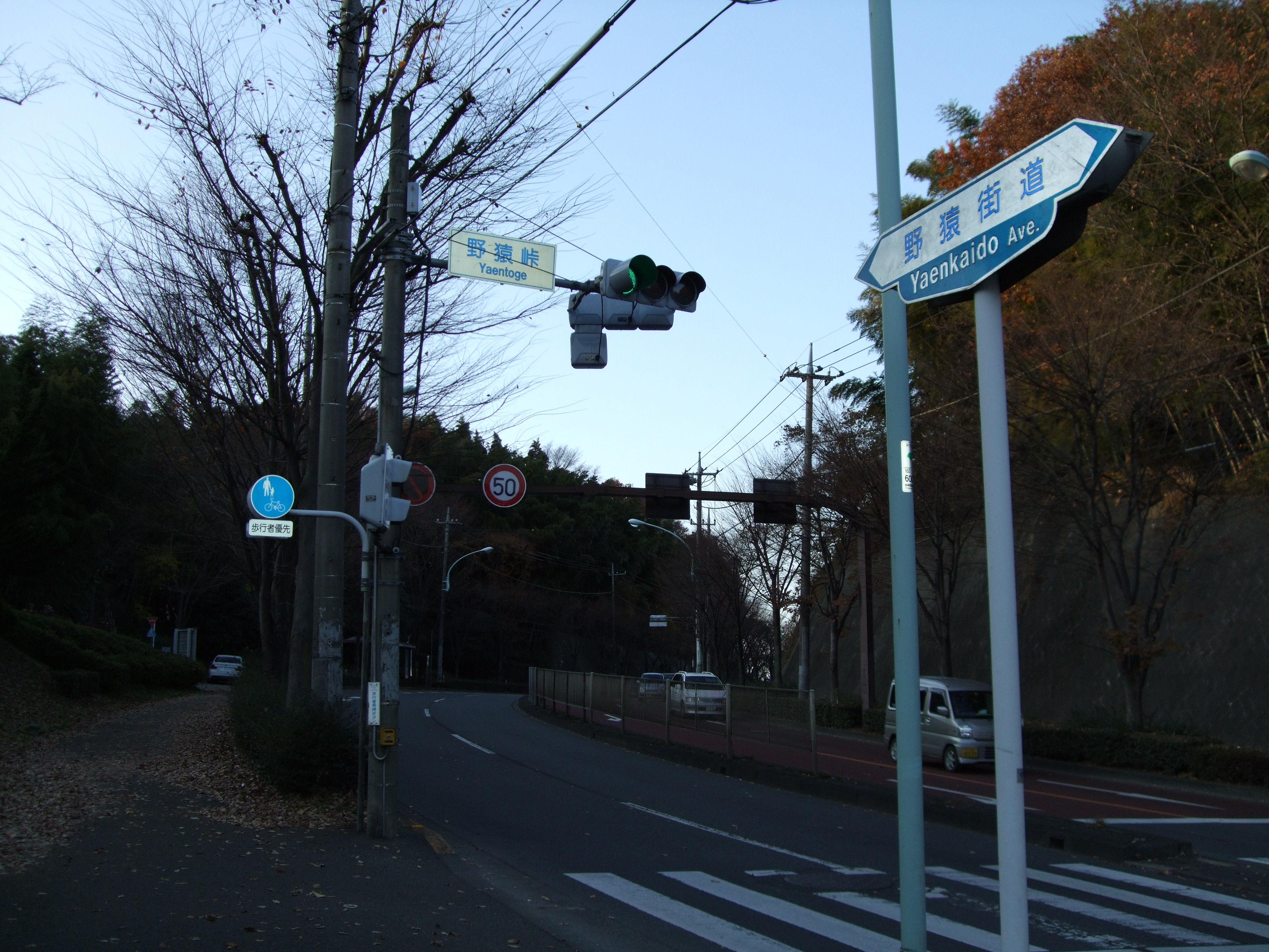 Yaen toge pass in Japan,Tokyo,Hachioji